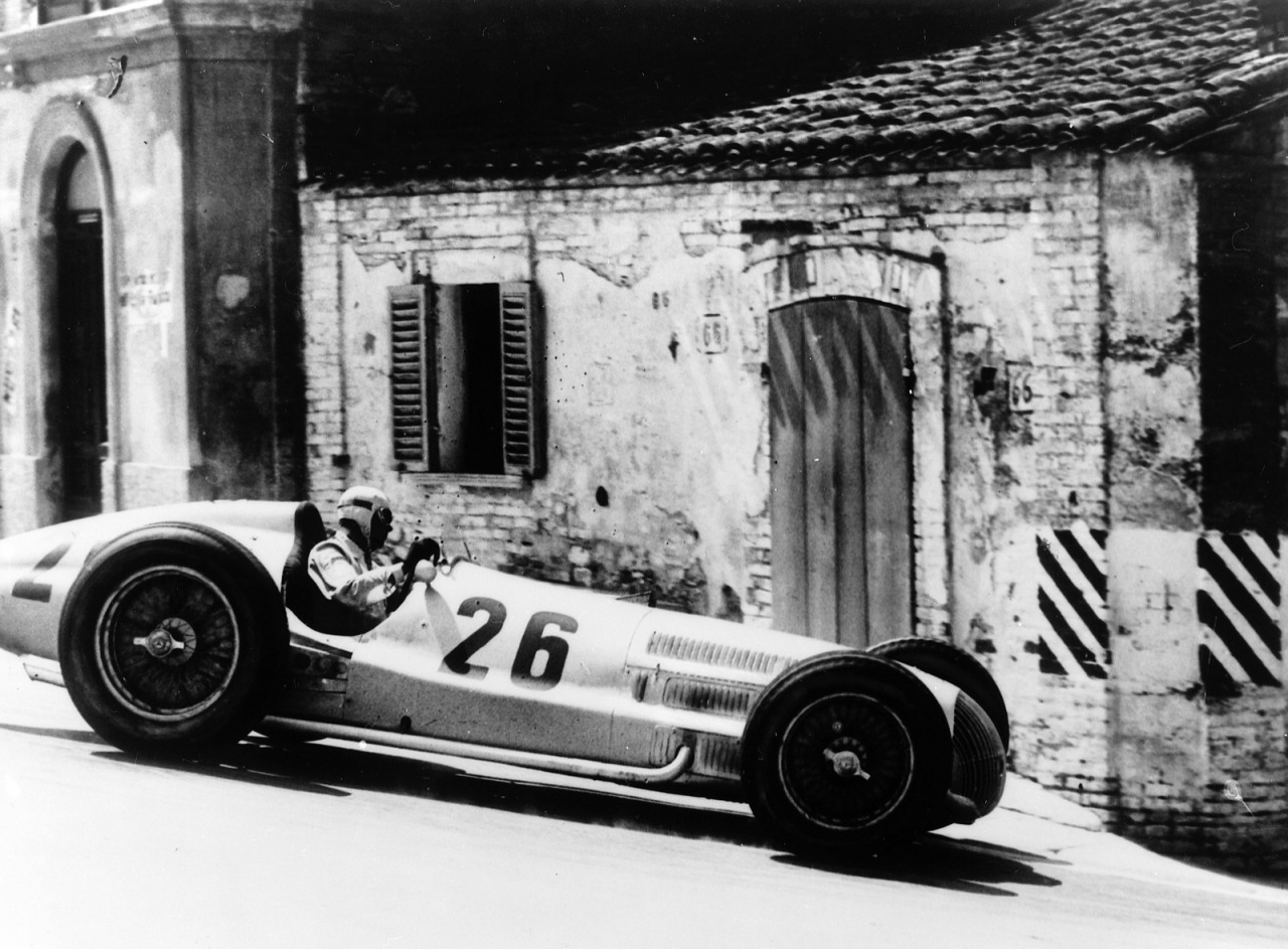 Rudolf Caracciola WINS at 1938 Coppa Acerbo in Pescara on 14 August 1938 in this Mercedes-Benz W154.[1] Same car seen in same race this movie